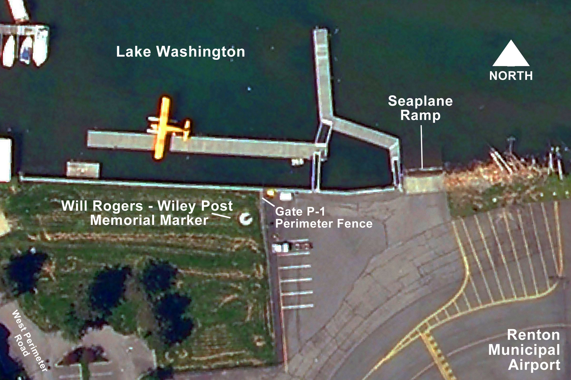 USGS The National Map Seamless Server May 2009 Color Orthoimagery - Seattle, WA (WGS 84) N: 47.50095 W: -122.21912 S: 47.49992 E: -122.21752 Output Format: GeoTIFF NAD 83 UTM Zone 10N X cell Size: 00.30 Meters Y cell Size: 00.30 Meters